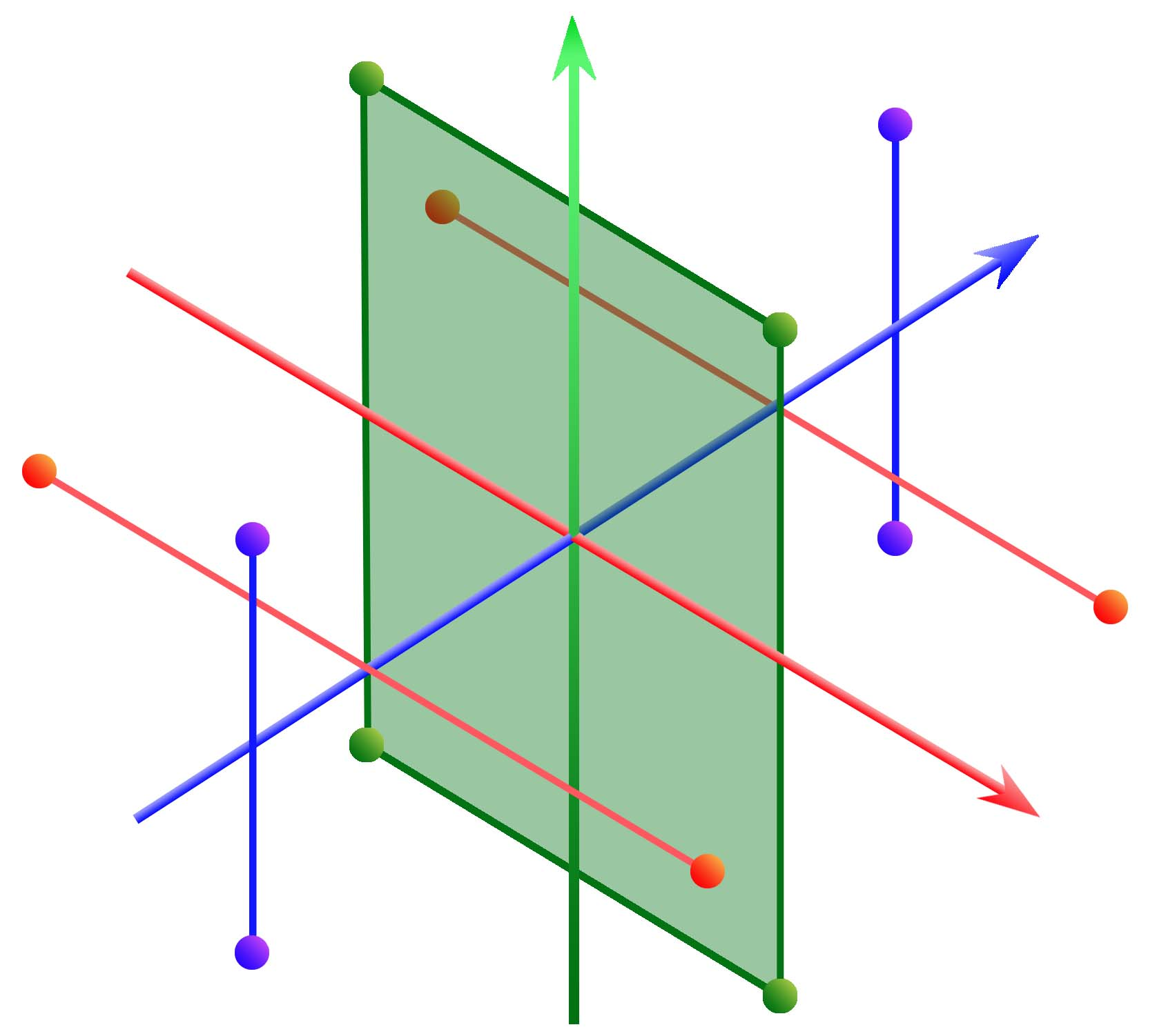 Rotations of order 2 in an icosahedron